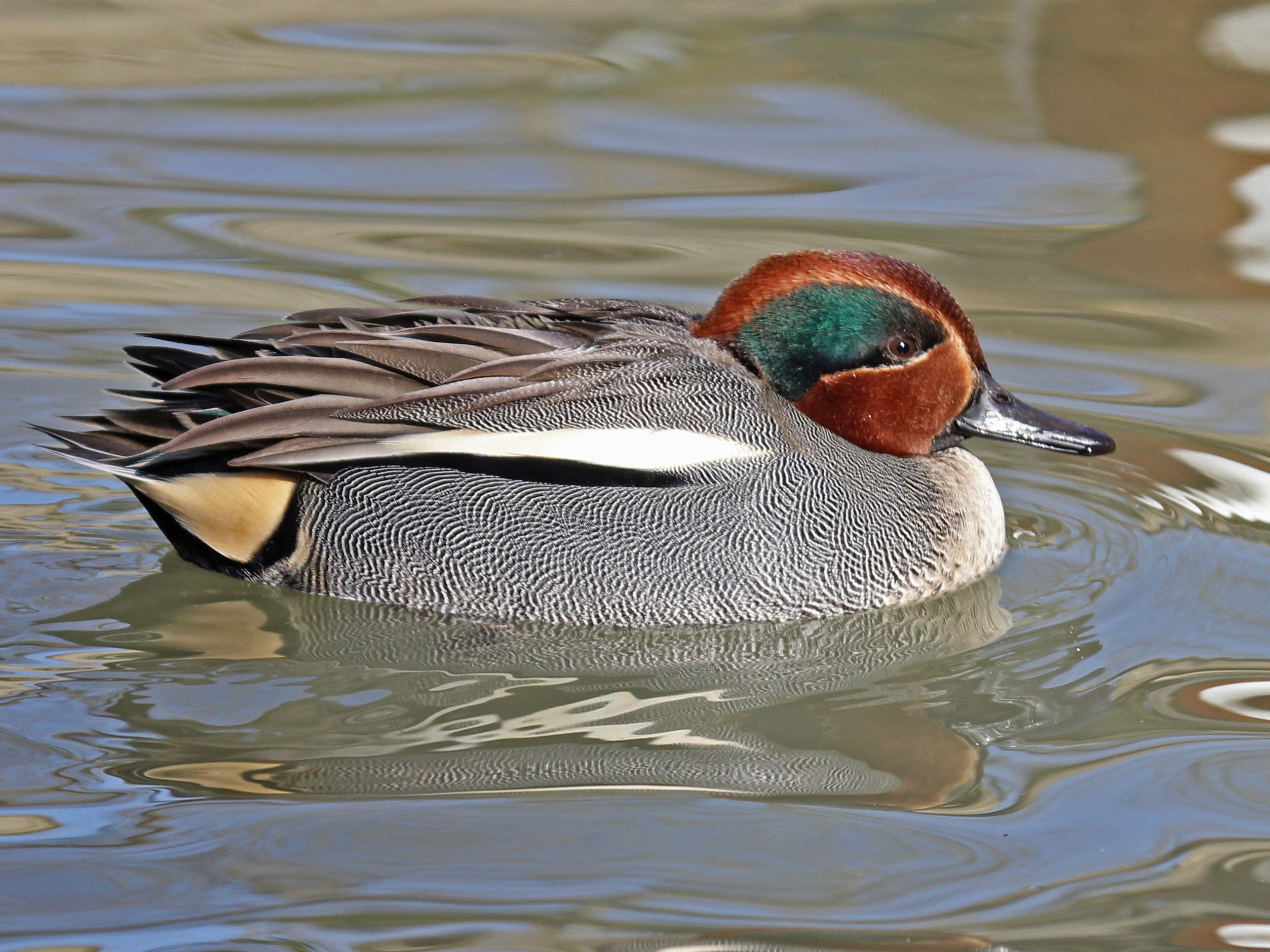 Eurasian Teal or Common Teal (Anas crecca) - Sylvan Heights Waterfowl Park, Scotland Neck, North Carolina